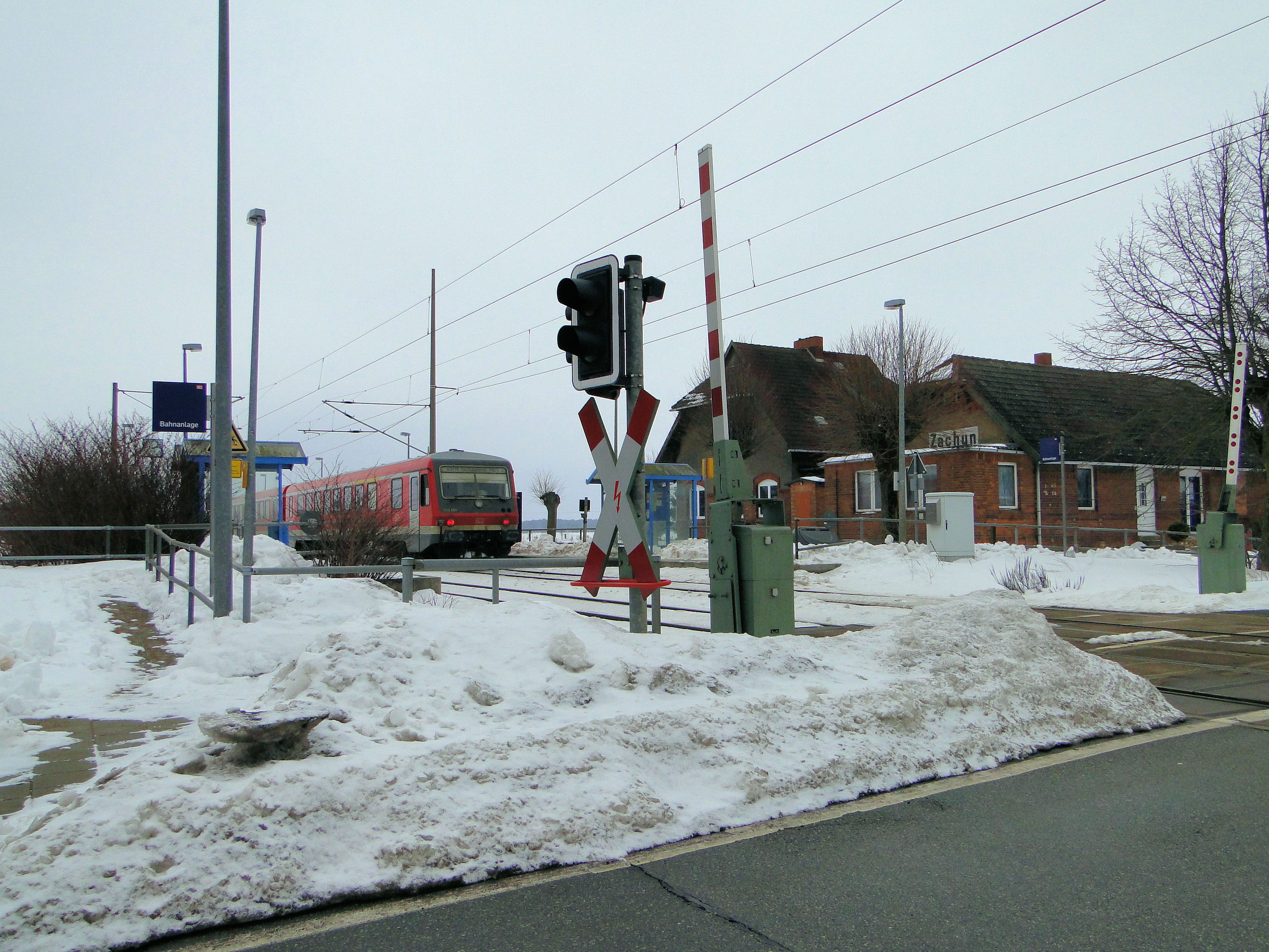 Train station in Alt Zachun, disctrict Ludwigslust, Mecklenburg-Vorpommern, Germany